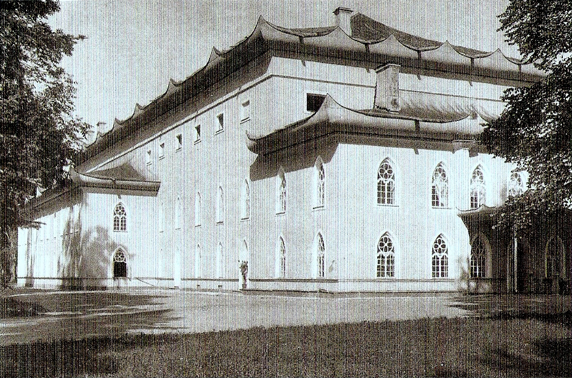 Tsarskoye Selo (Russia), Chinese Theatre in Alexander Garden.